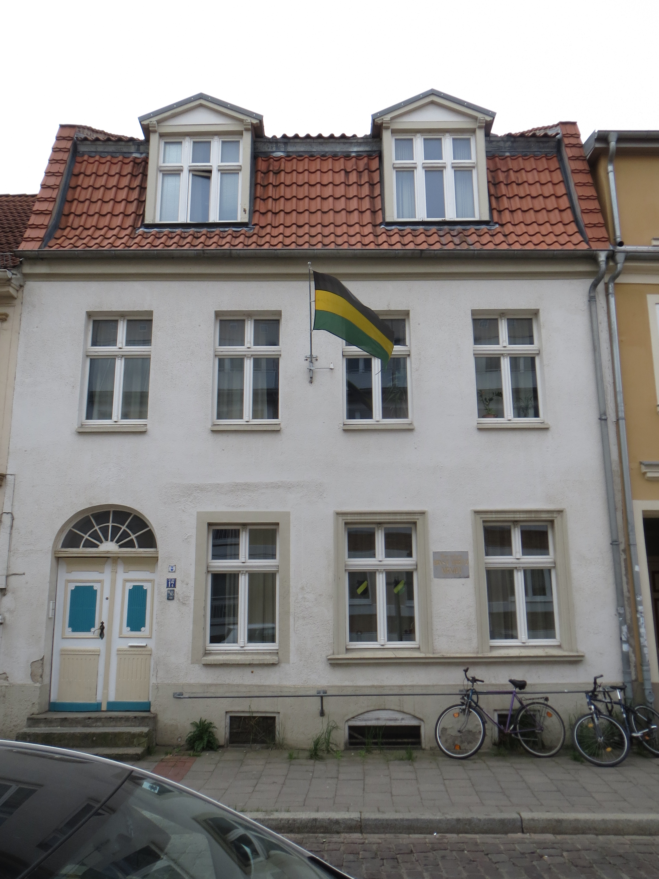 Johann-Sebastian-Bach-Strasse 17 in Greifswald, temporary home of Ernst Moritz Arndt, house of KDStV Alemannia zu Greifswald und Münster